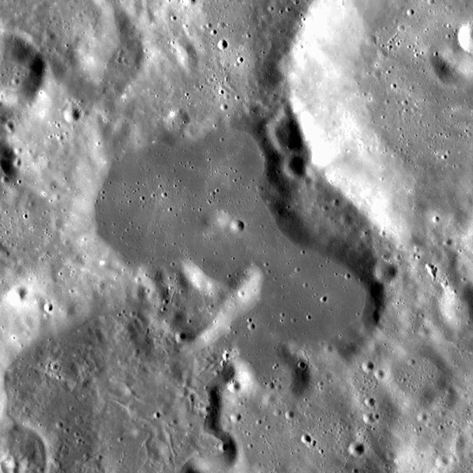 Lacus Oblivionis on the Moon. Mosaic of photos by Lunar Reconnaissance Orbiter, made with Wide Angle Camera. Size of the image is 60×60 km, north is up.